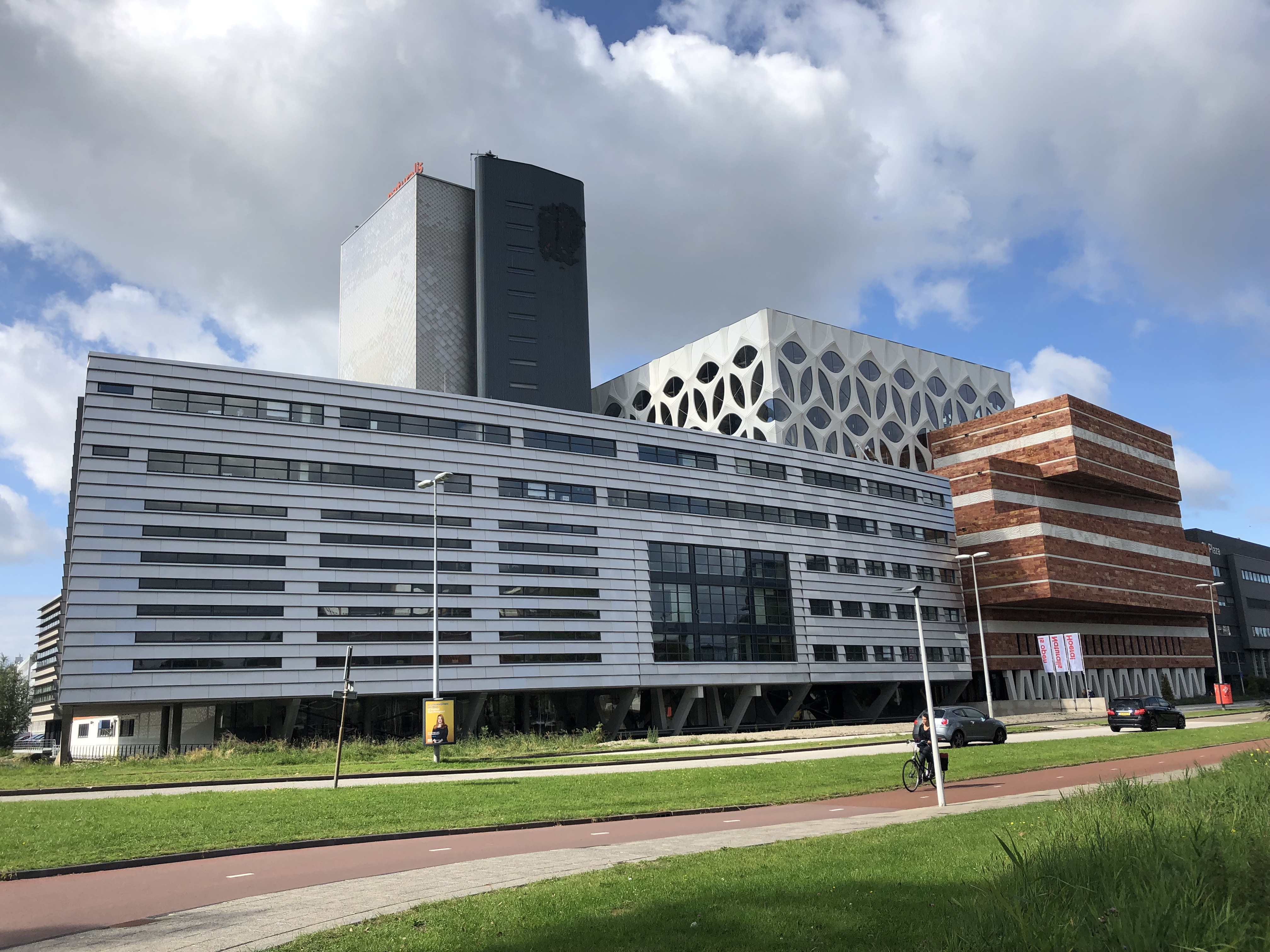 Naturalis Biodiversity Center in Leiden, the Netherlands. Shown here is the new expansion that was opened on August 31 2019. The building was designed by Neutelings Riedijk Architects.